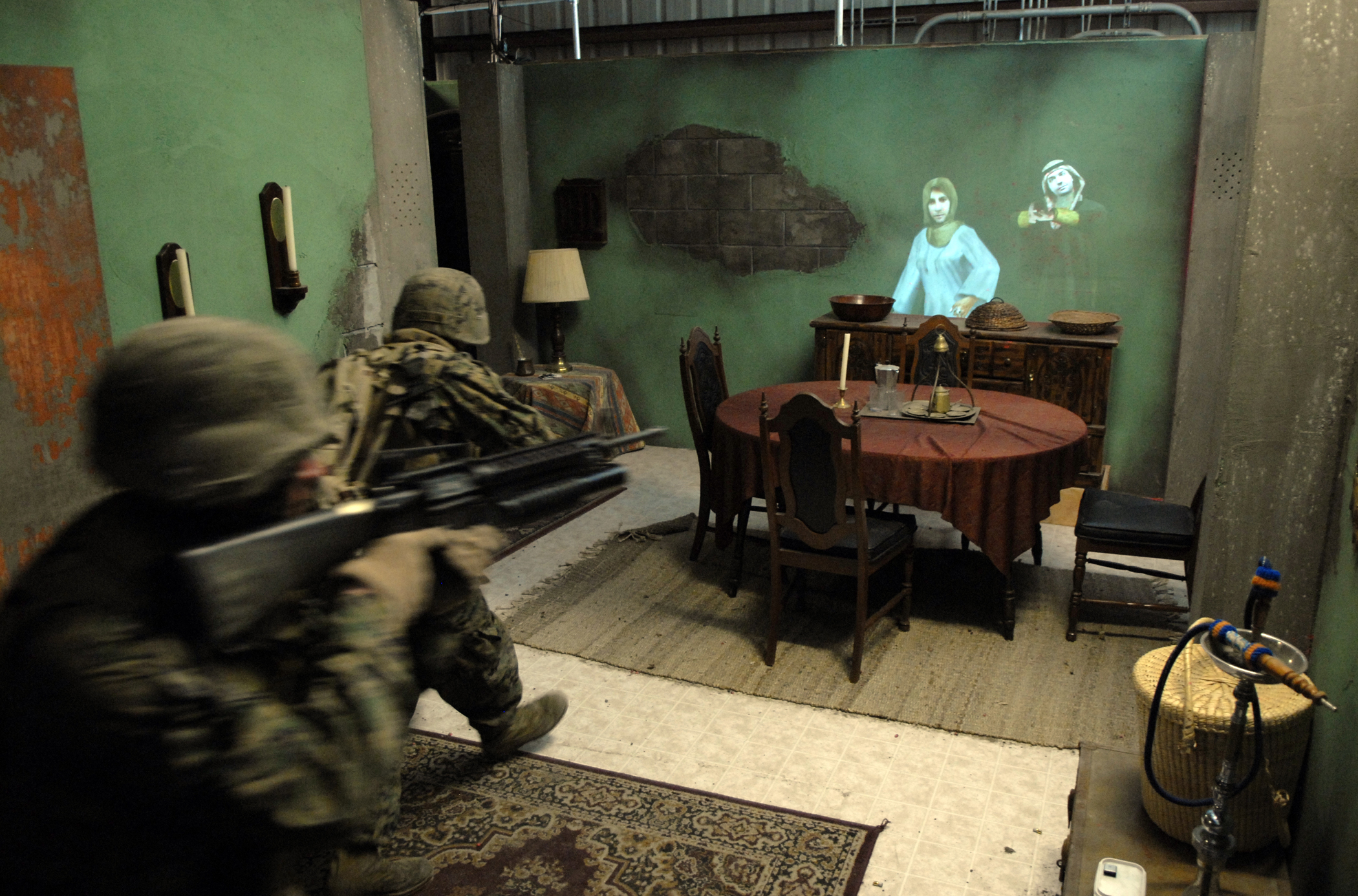 CAMP PENDLETON, Calif. (Feb. 19, 2008) Marines from 3rd Battalion, 1st Marines, confront avatars, or virtual humans, while clearing a room at the Office of Naval Research Infantry Immersion Trainer (IIT) located at the I Marine Expeditionary Force Battle Simulation Center. The IIT utilizes a mixture of real and advanced virtual technologies that are leading to advances in Marine Corps training and combat readiness. U.S. Navy photo by John F. Williams (Released)